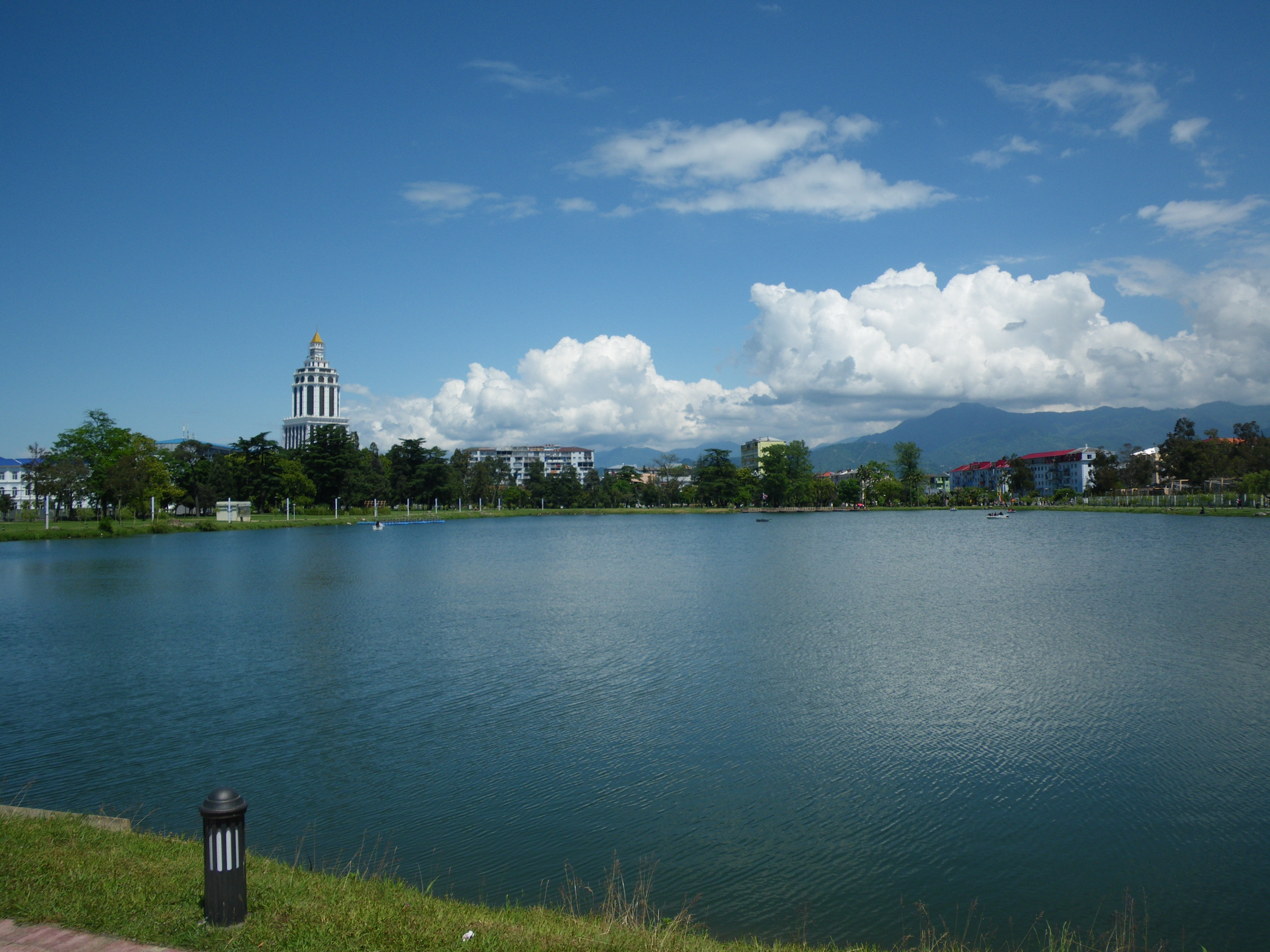 Lake in Batumi. Hotel Hilton raising in the background.